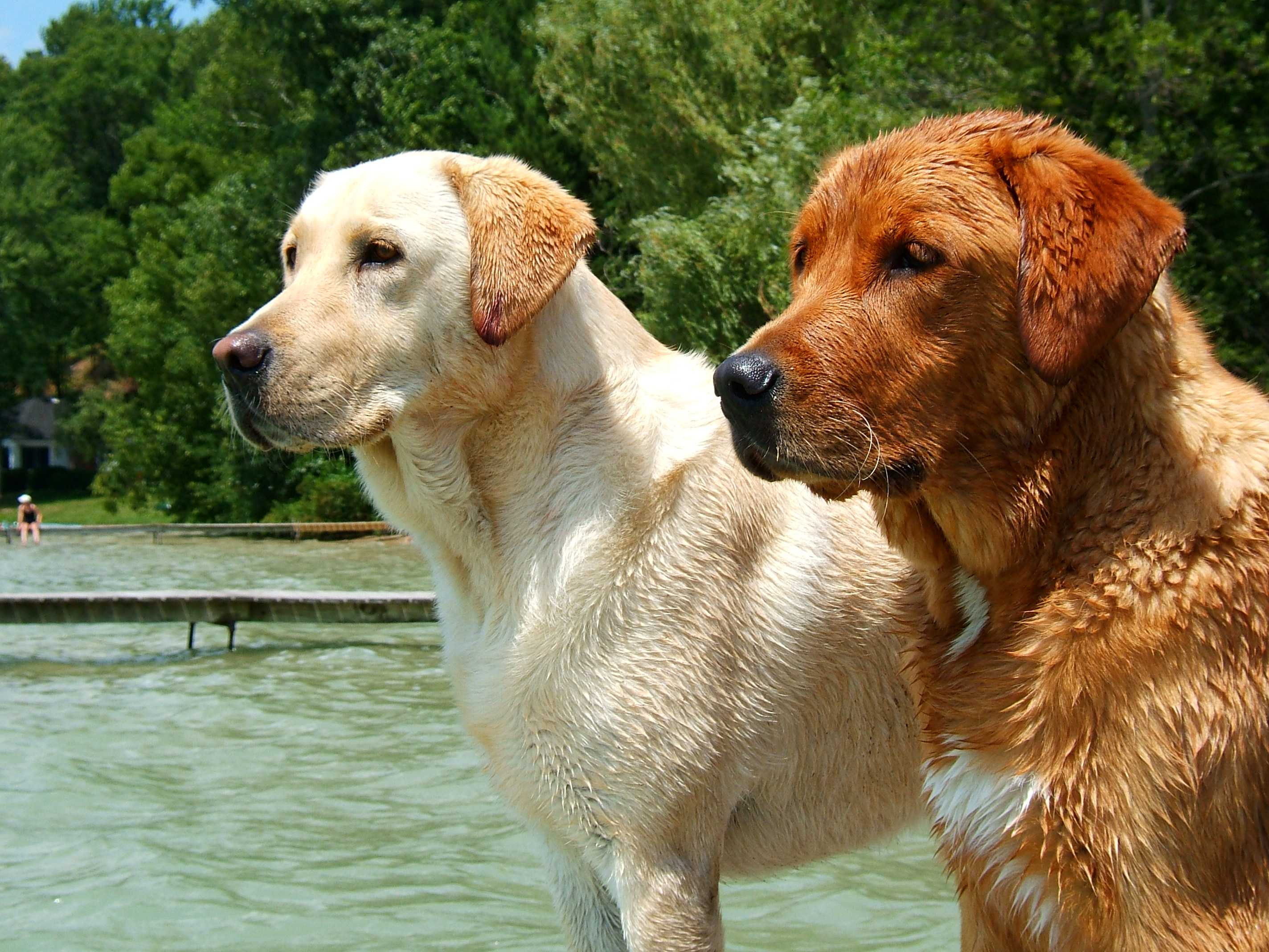 Yellow and "fox red" Labrador Retriever.